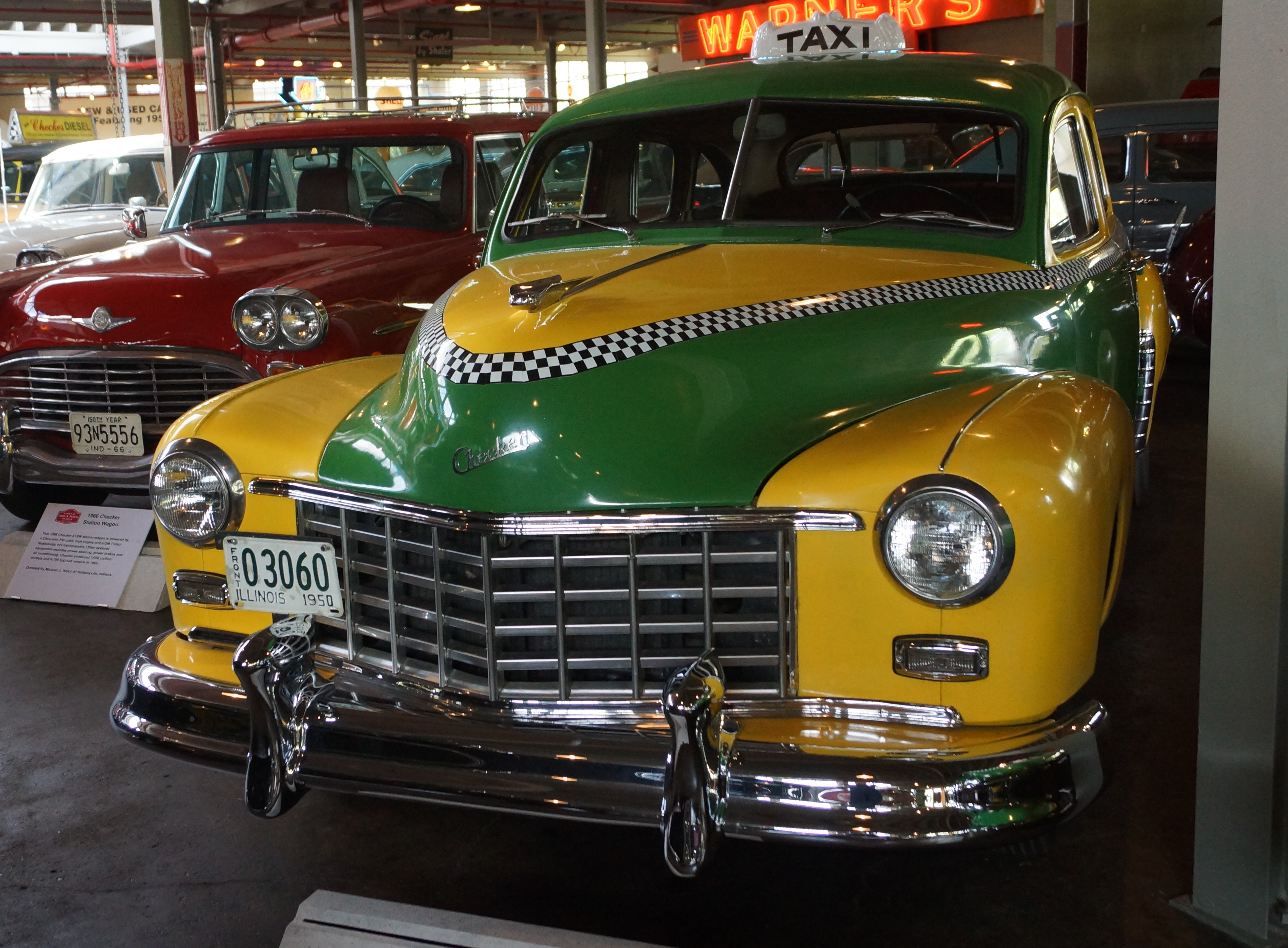 1950 Checker Model A4 taxicab National Automotive and Truck Museum1000 Gordon M. Buehrig Place Auburn, Indiana May 2017